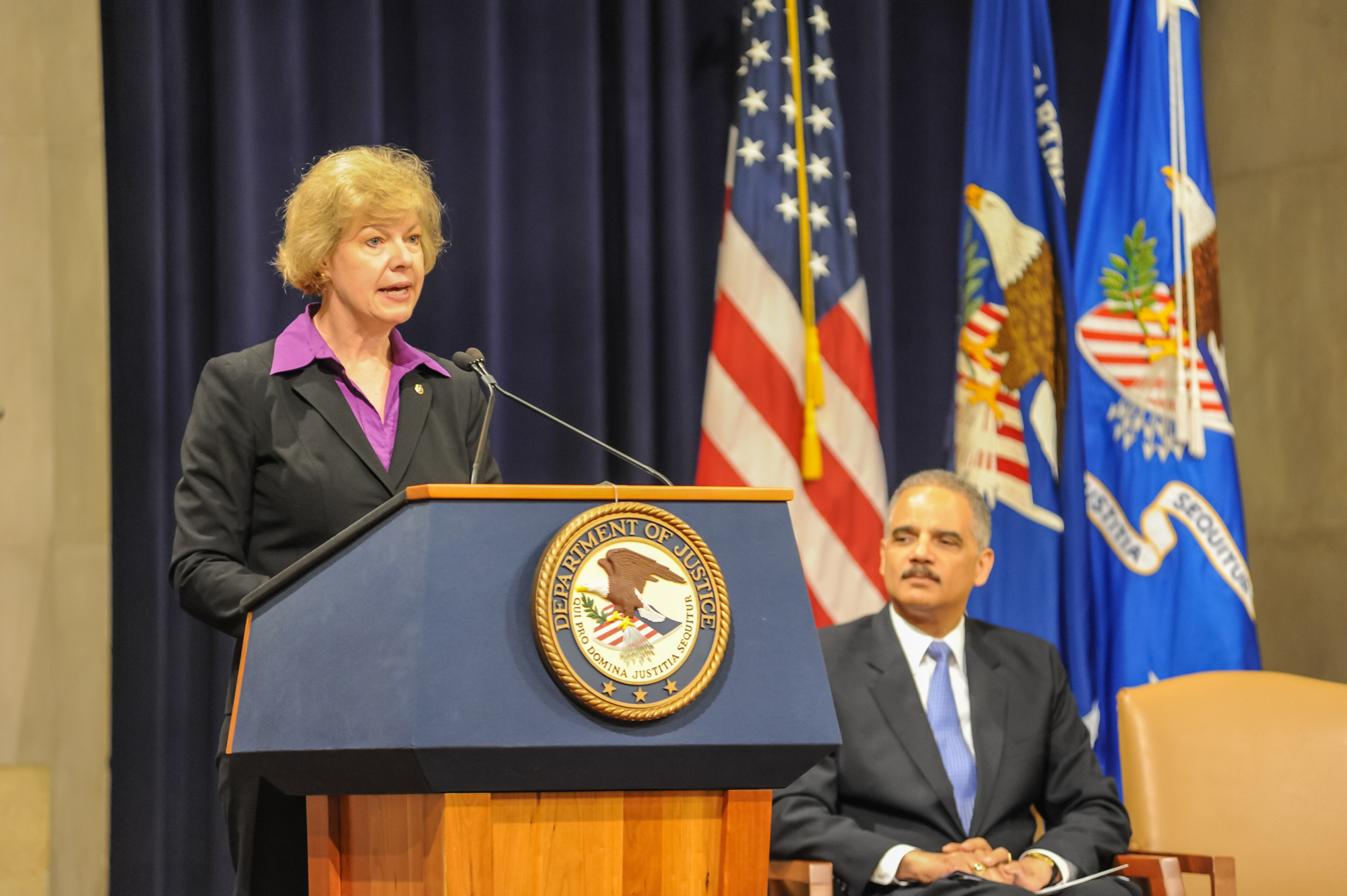 US Senator Tammy Baldwin from Wisconsin